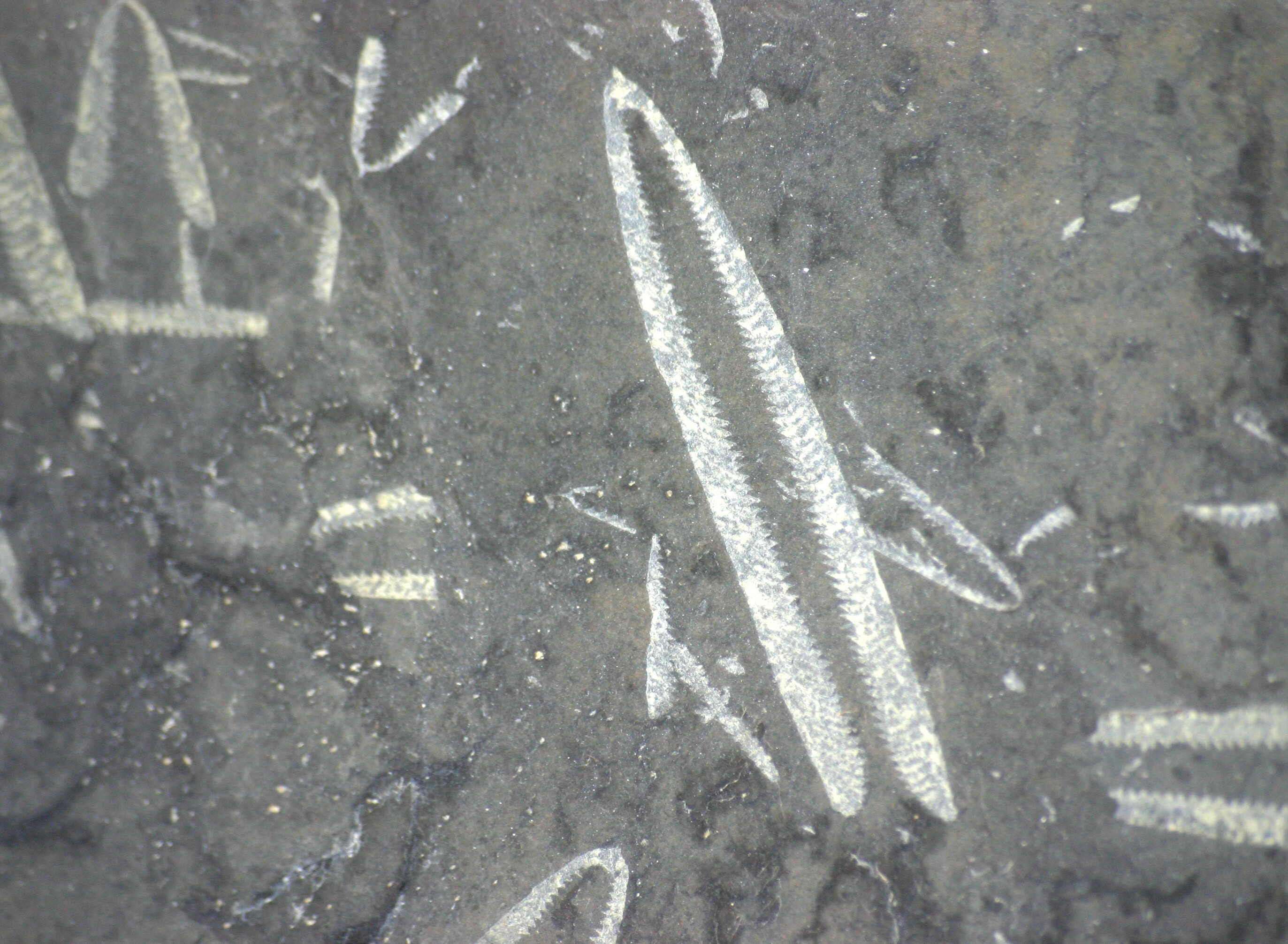 The photo shows a fossil of Didymograptus murchisoni, a graptolite from the Ordovician period.